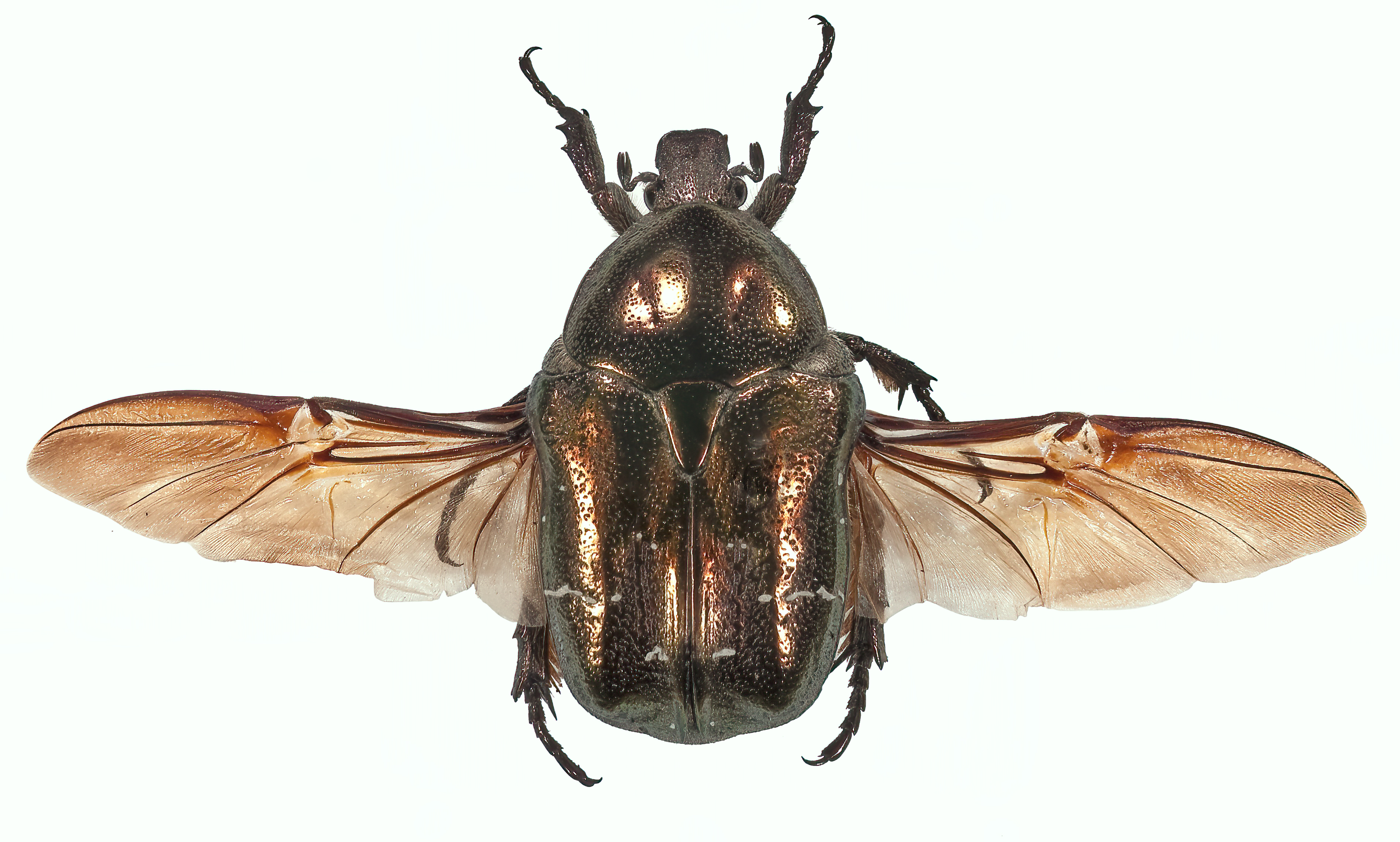 Protaetia fieberi - flight posture - France - 4.6x1.6cm